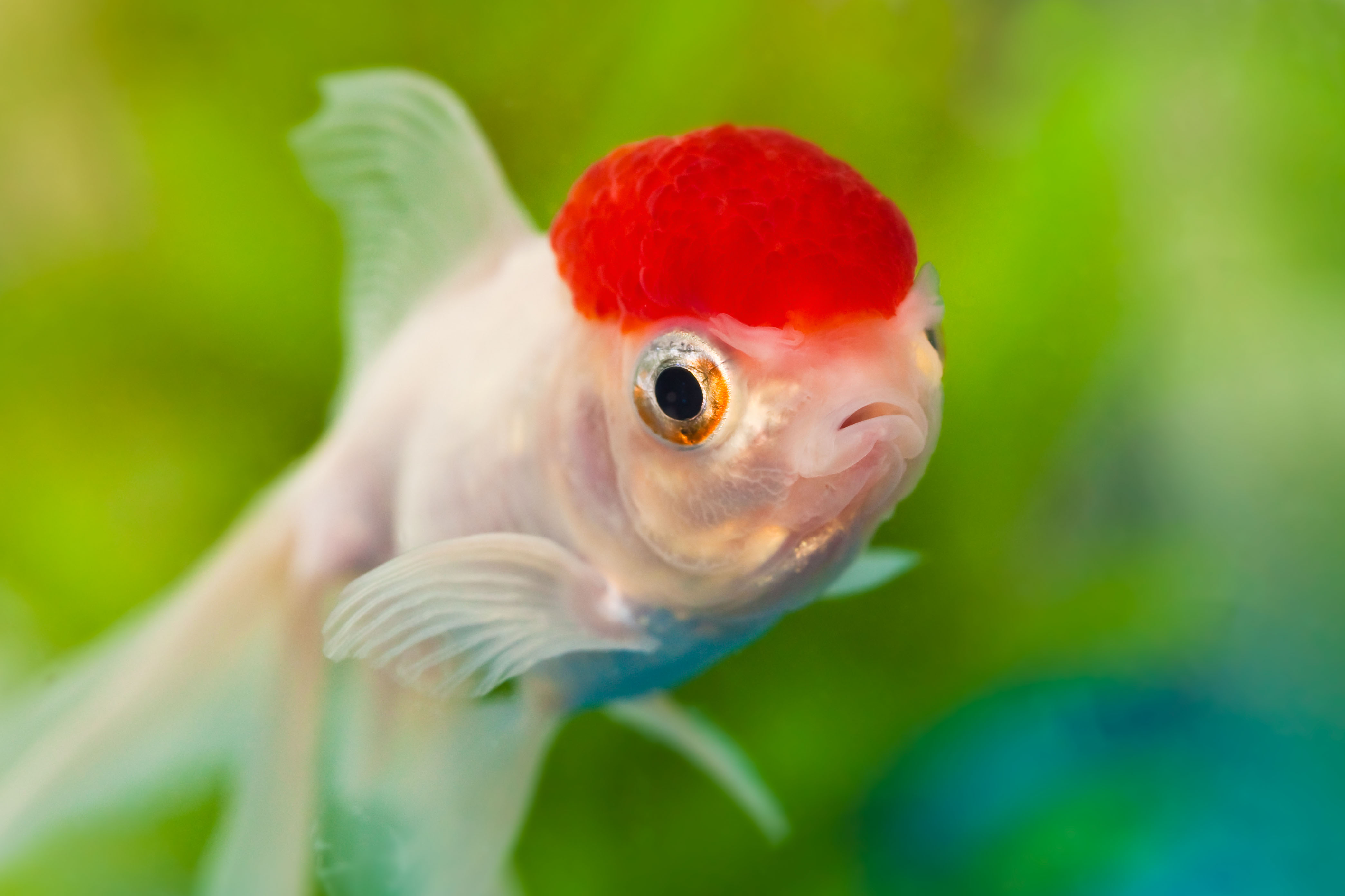 Dazey, the goldfish, being his normal dazed self